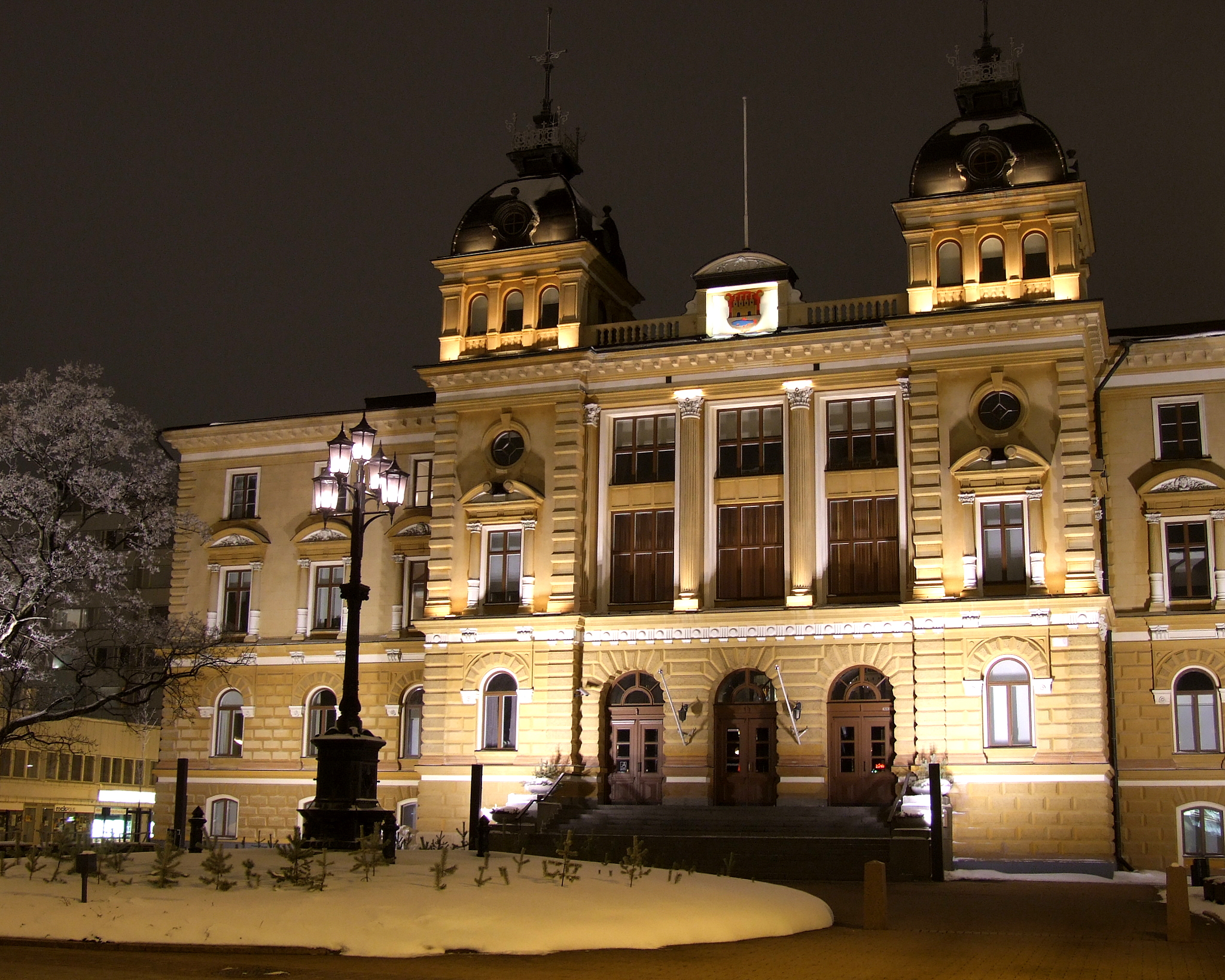 The Oulu City Hall in Oulu, Finland, in the evening. The City Hall was designed by Swedish architect J. E. Stenberg in 1885, and it was completed in 1886.